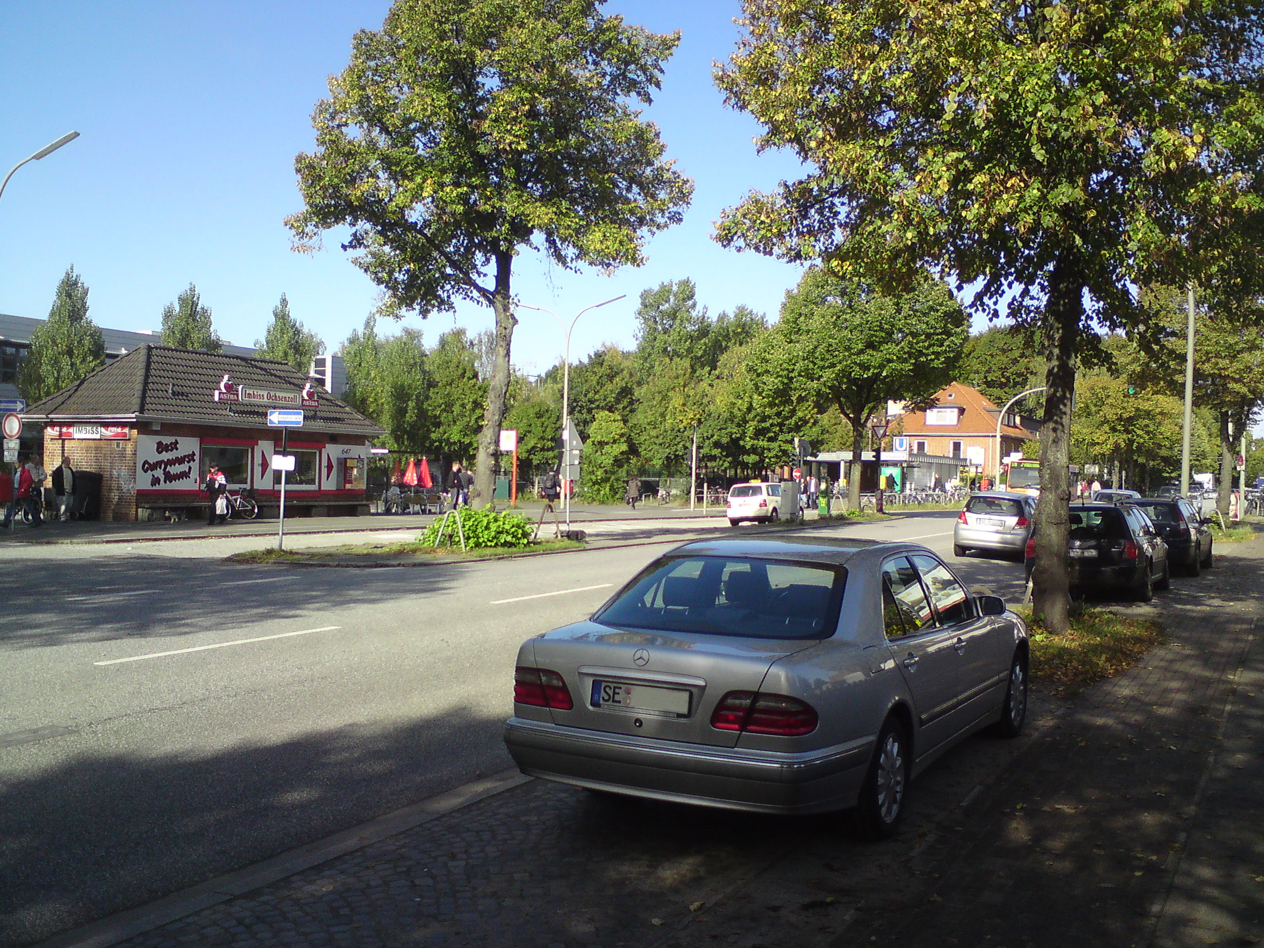 Bus stop at Underground Station Ochsenzoll, Hamburg, Germany